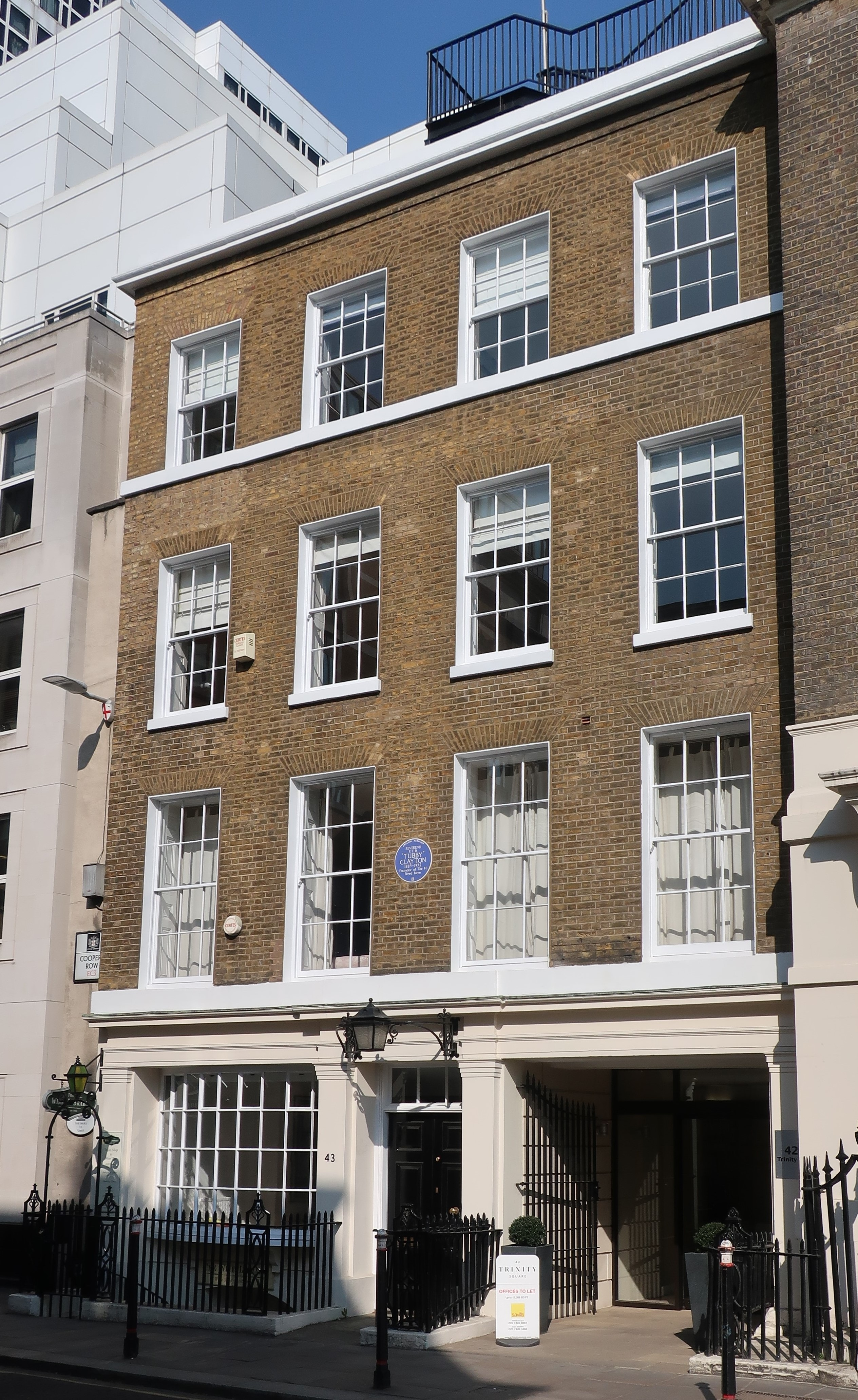 43 Trinity Square, London EC3, formerly the vicarage of All-Hallows-by-the-Tower, and home of Philip "Tubby" Clayton, founder of the Toc H movement. The house is marked with an English Heritage blue plaque commemorating Clayton.